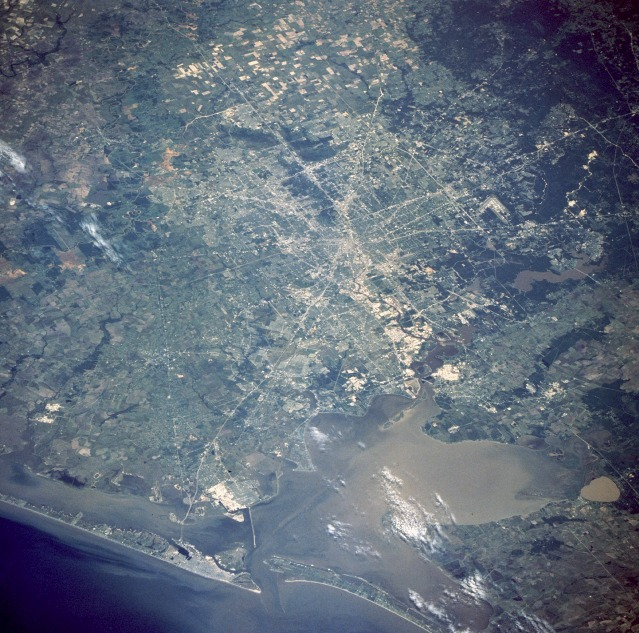 Houston metro area from space more